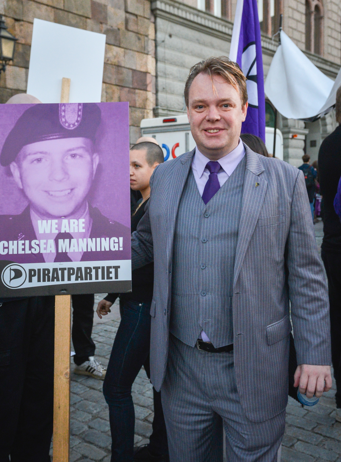 Protest groups during President Obama's visit to Sweden, Stockholm, in September 2013. Rickard Falkvinge from the Pirate Party.